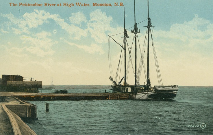 A tern schooner floats near a dock on the Petitcodiac River, New Brunswick, Canada